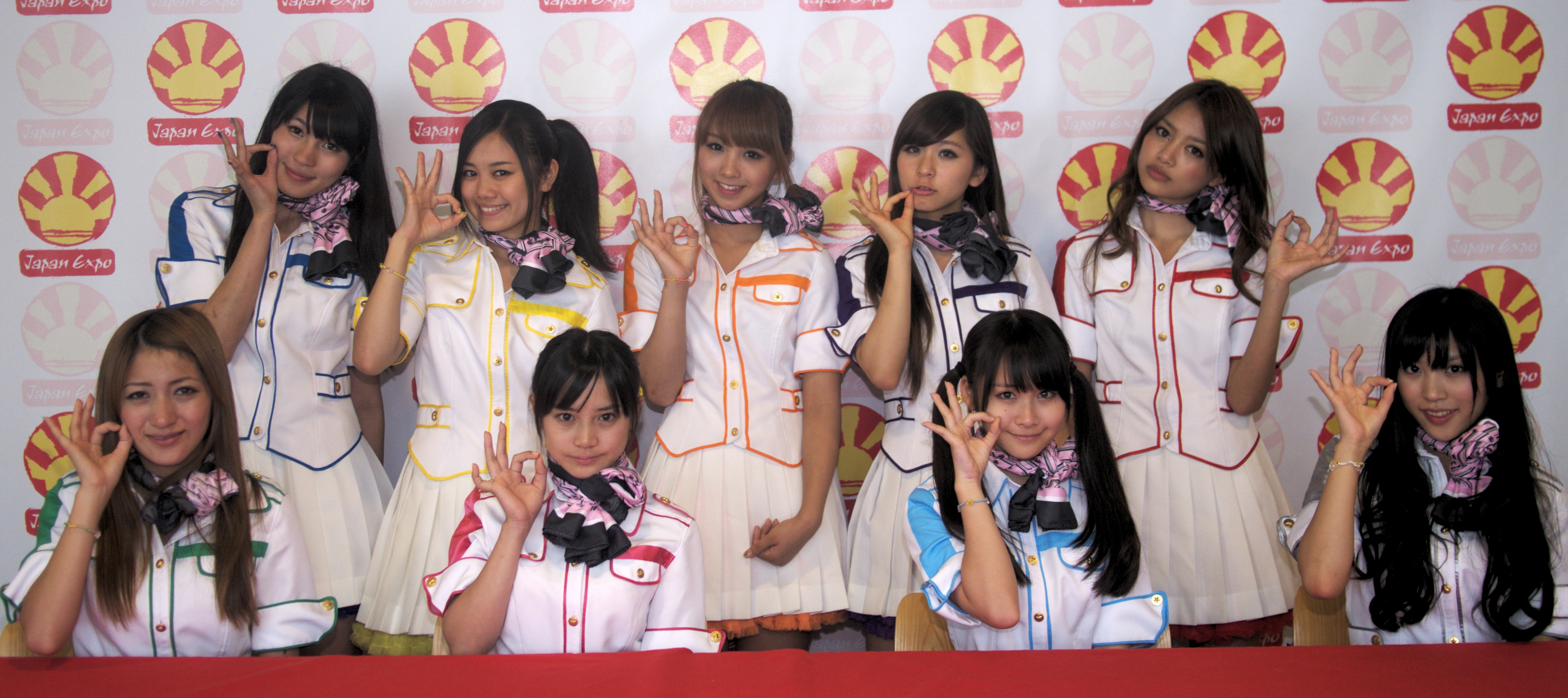 Japan Expo Festival, 12th impact